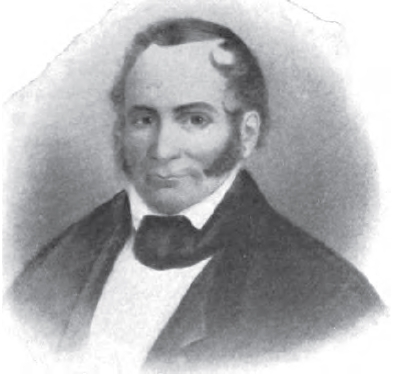 Abner Smith Lipscomb (1865-12-08), American and Texian lawyer and judge who served as Secretary of State for the Republic of Texas under President Mirabeau B. Lamar.